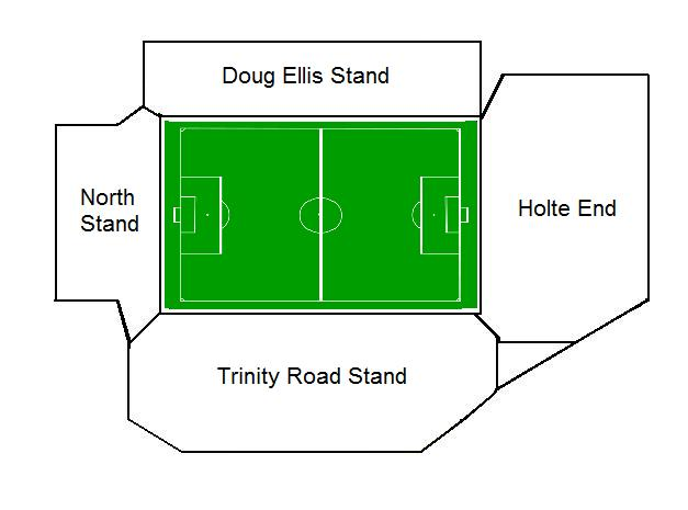 A diagram of the Stand alignment of the football stadium Villa Park. Villa PArk is the home of Aston Villa F.C.